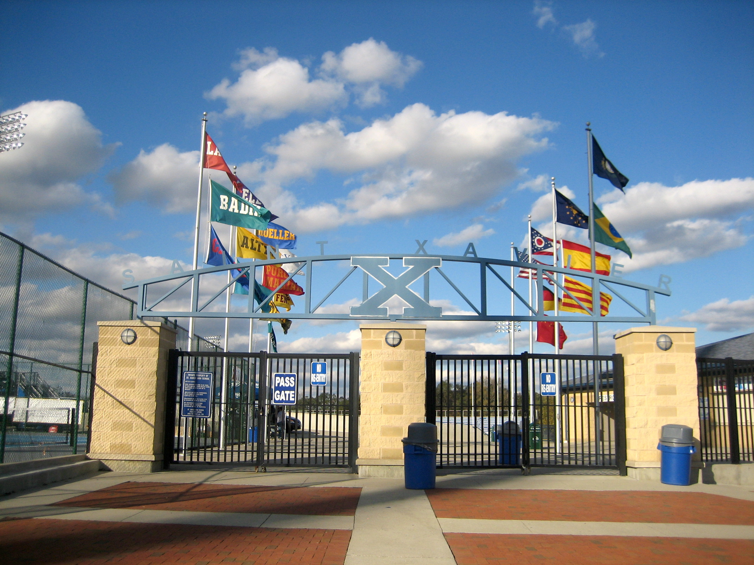 The entrance gate to Ballaban Field at St. Xavier Stadium, the football stadium on the grounds of St. Xavier High School in Cincinnati, Ohio, United States. This entrance was built in 2004. To the left of the gate are flags representing each of the Greater Catholic League member schools. To the right are the U.S. flag, along with flags representing St. Xavier students' home states (Ohio, Indiana, and Kentucky) and exchange students' home countries (Germany, China, Spain, Catalonia, and Brazil). Catalonia is called out separately due to St. Xavier's longstanding relationship with Col·legi Casp-Sagrat Cor de Jesús in Barcelona.